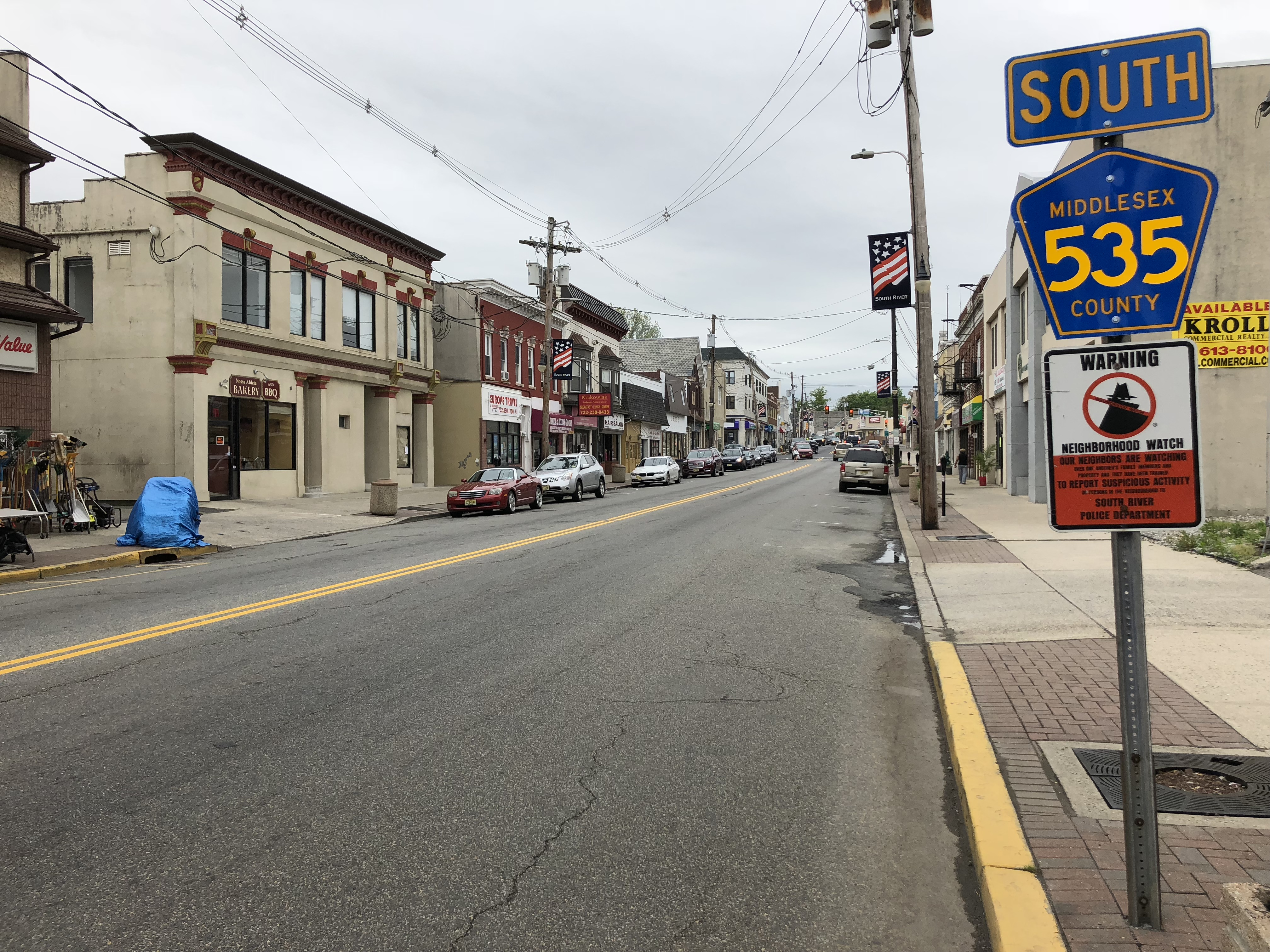 View south along Middlesex County Route 535 (Main Street) at Middlesex County Route 677 (Ferry Street) in South River, Middlesex County, New Jersey